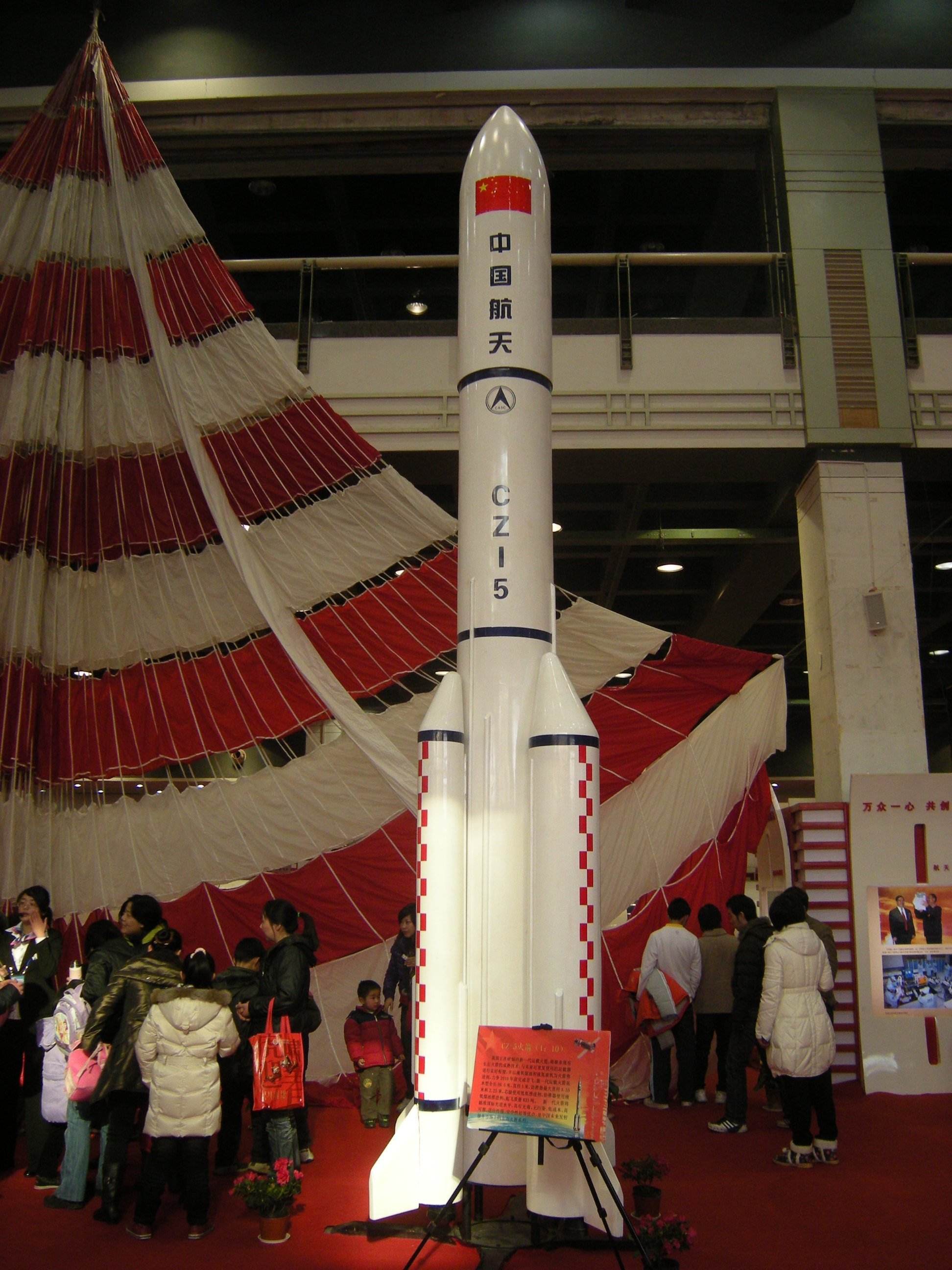 CZ-5_launch_vehicle_model